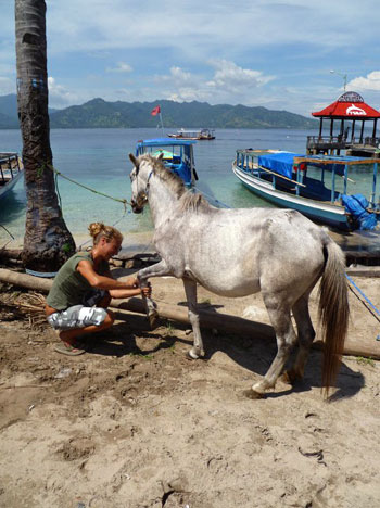 Taking car of Gili islands' horses